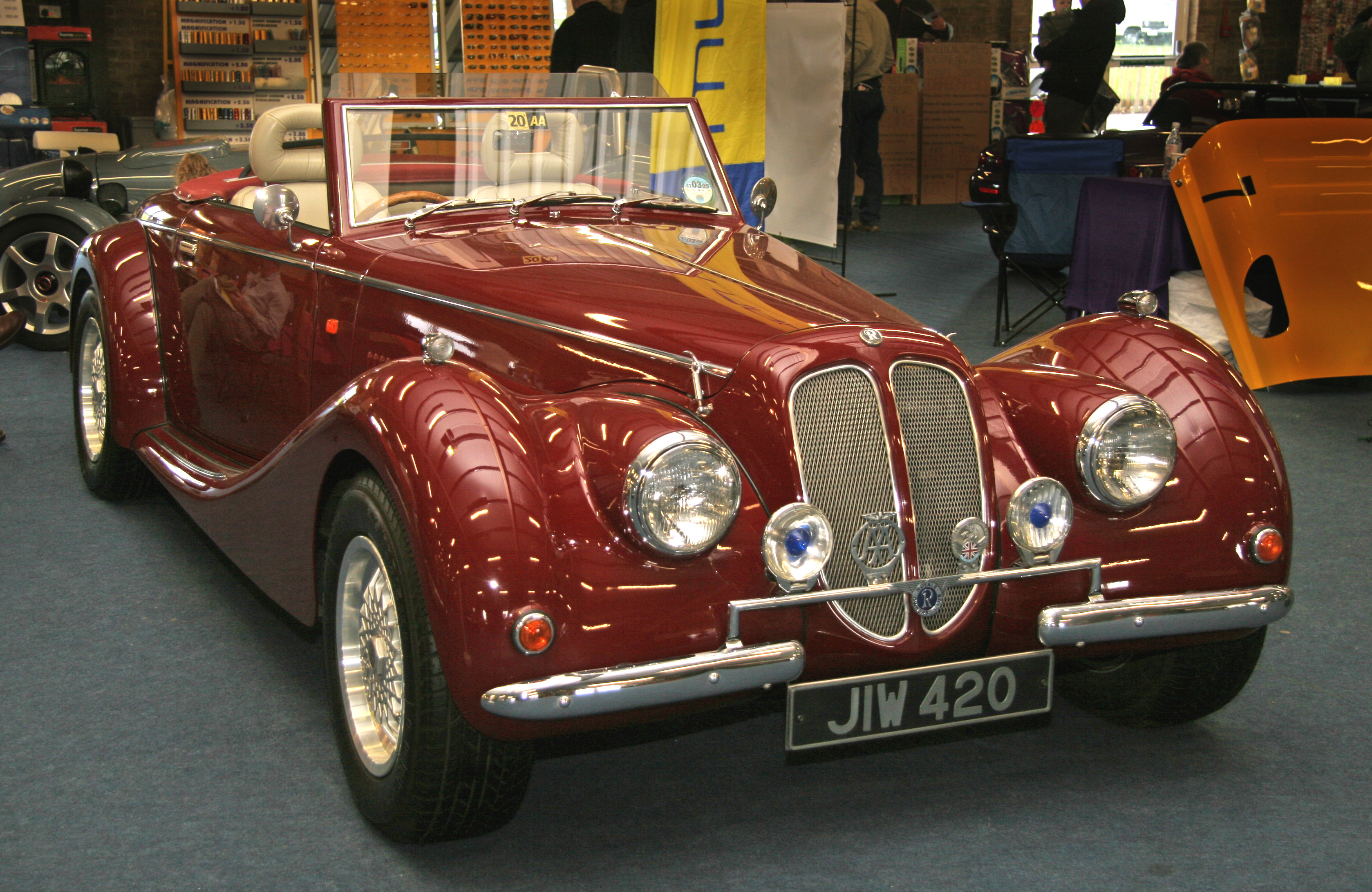 Royale Sabre Apparently the Royale Motor Company was sold in 2000 and the Sabre was sold to the Empire Motor Company in Holland[1][2]